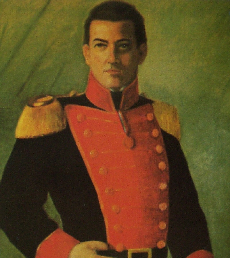 XIX Century portrait of José Gregorio Monagas.